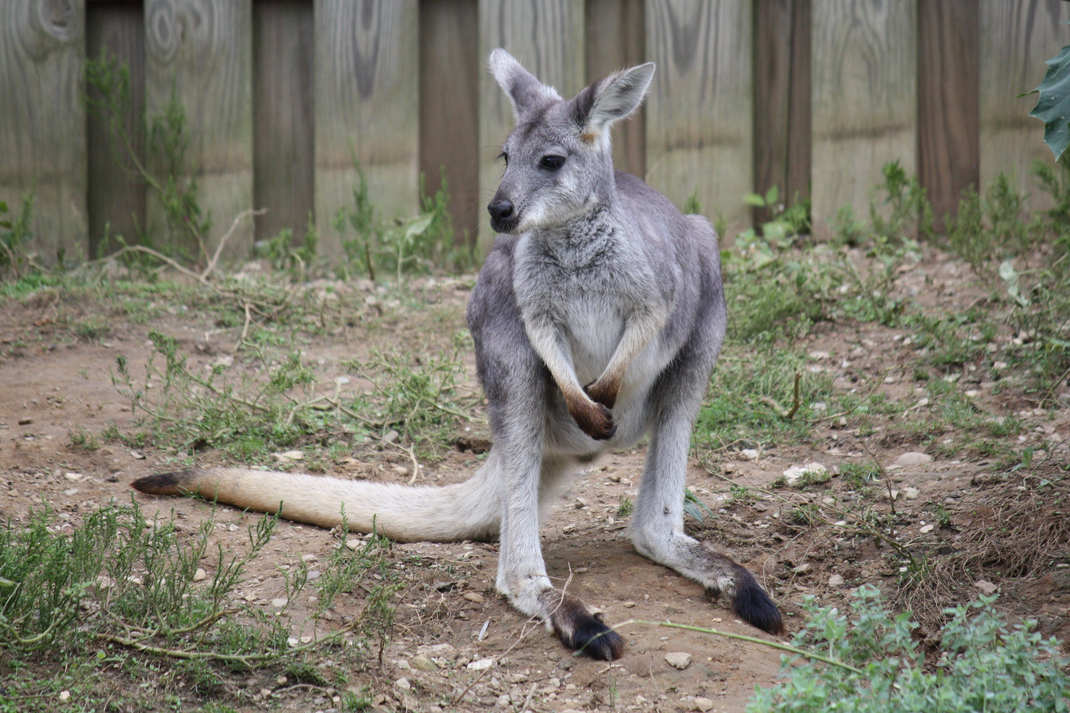 Wallaroo Macropus robustus at Louisville Zoo